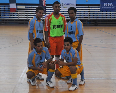 Tuvalu-vs-New-Cale_2011